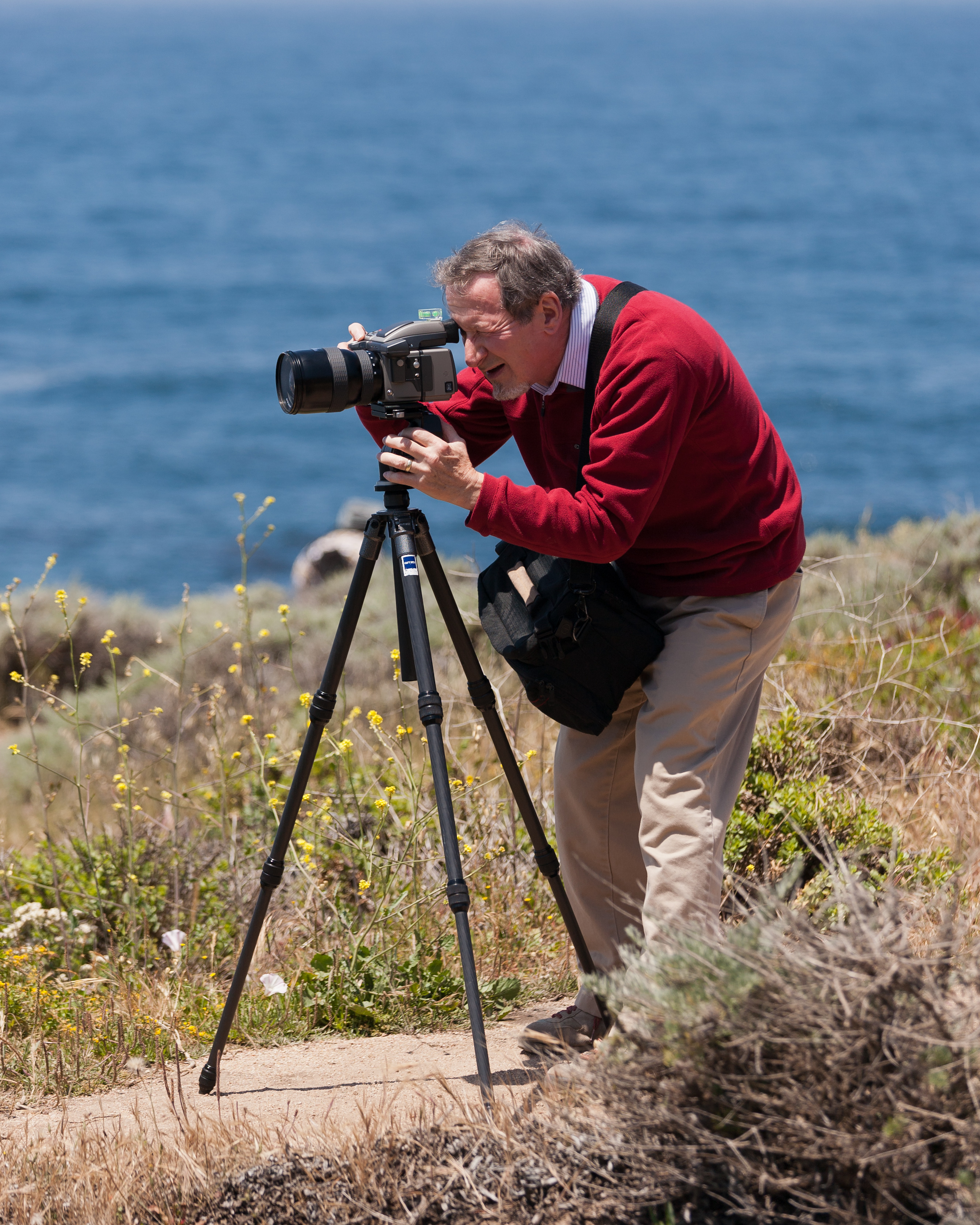 Douglas Osheroff photographing with his Hasselblad H4D-40 along CA-1, just south of Carmel, California.